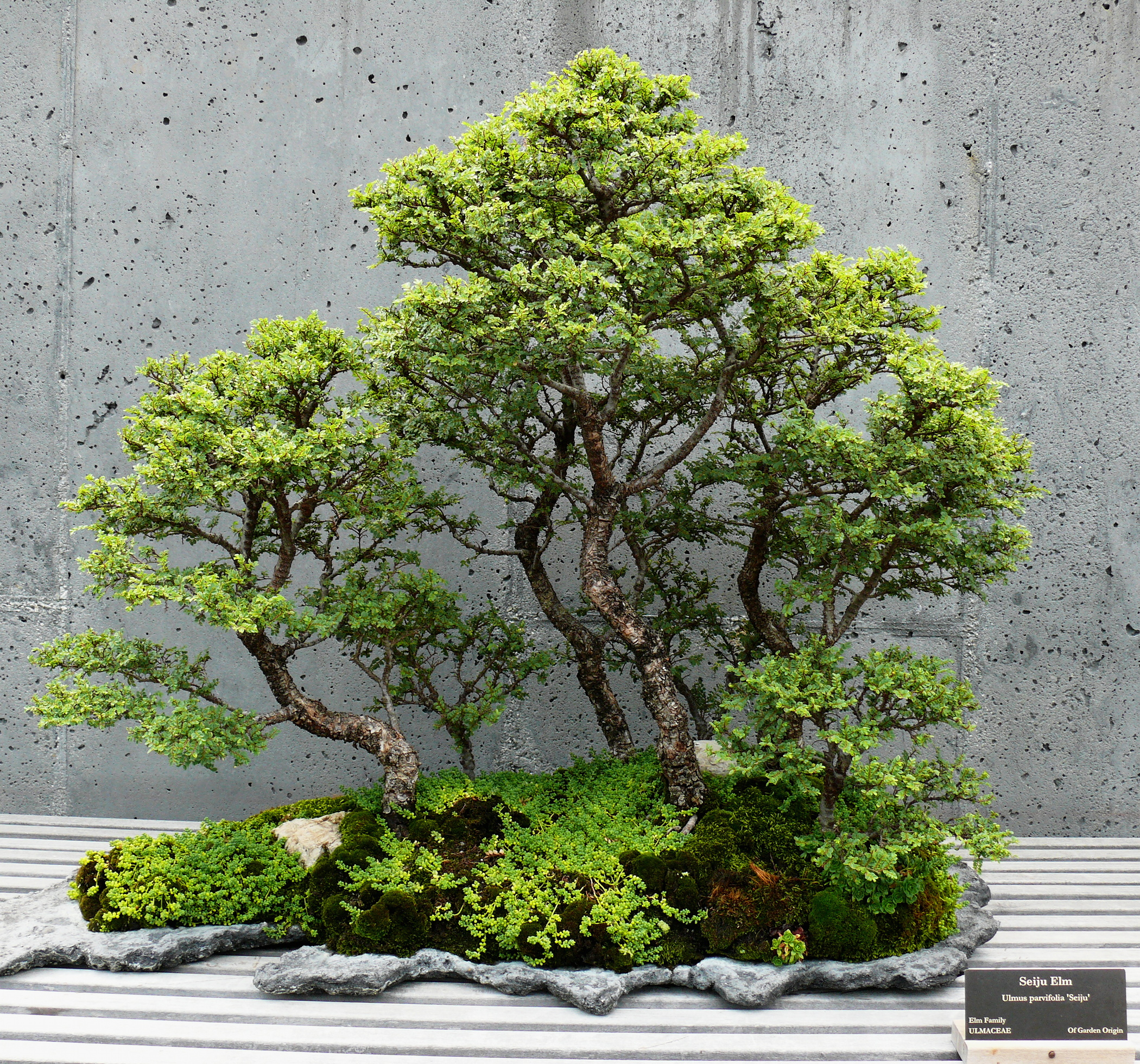 Seiju Elm (Ulmus parvifolia 'seiju') bonsai on display at the North Carolina Arboretum.Photo taken with a Panasonic Lumix DMC-FZ50 in Buncombe County, NC, USA.